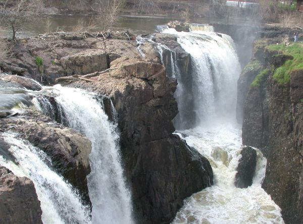 Great Falls of the Passaic River in Paterson © 2004 Matthew Trump